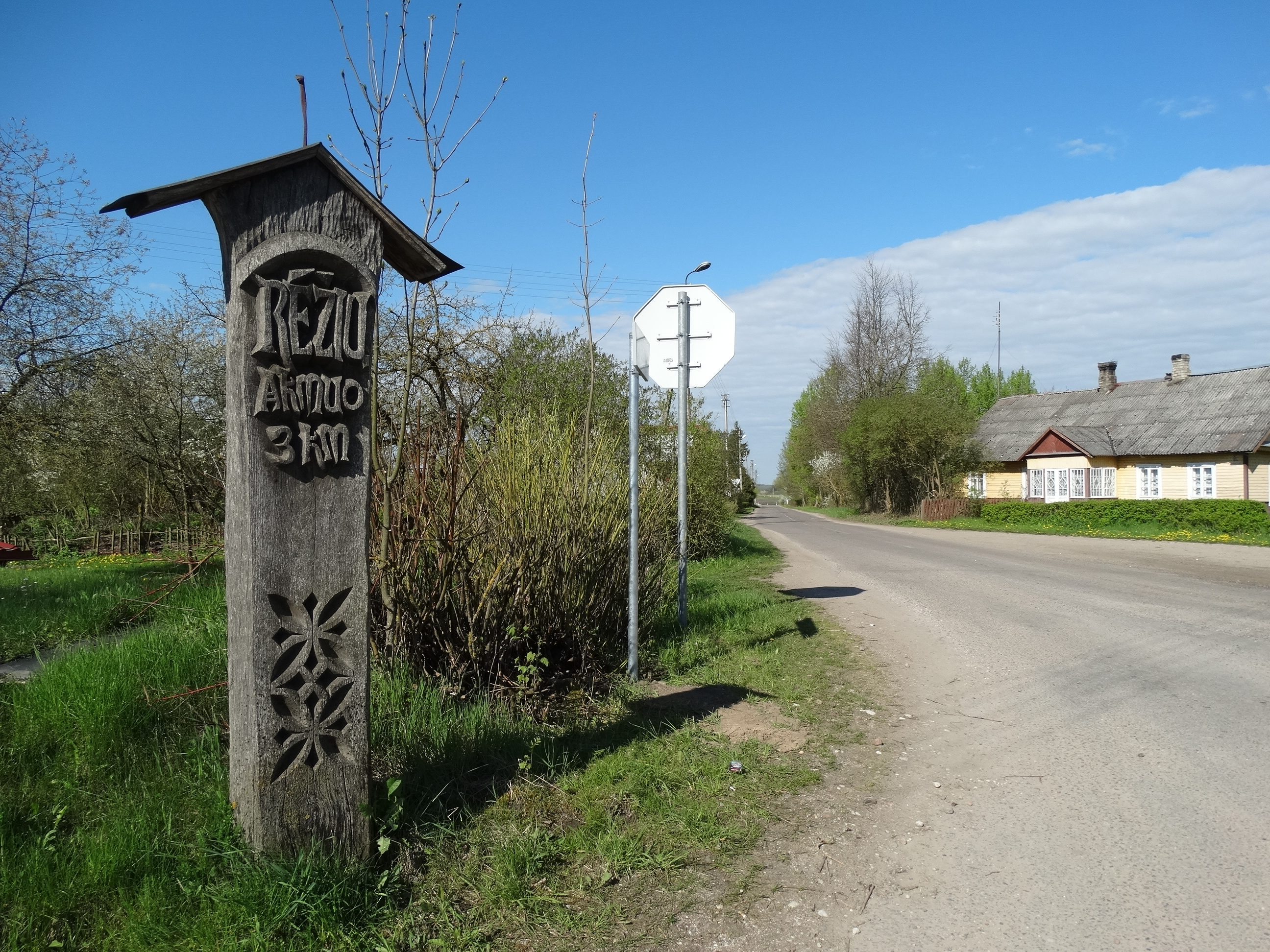 Butrimonys, Šalčininkai District, Lithuania